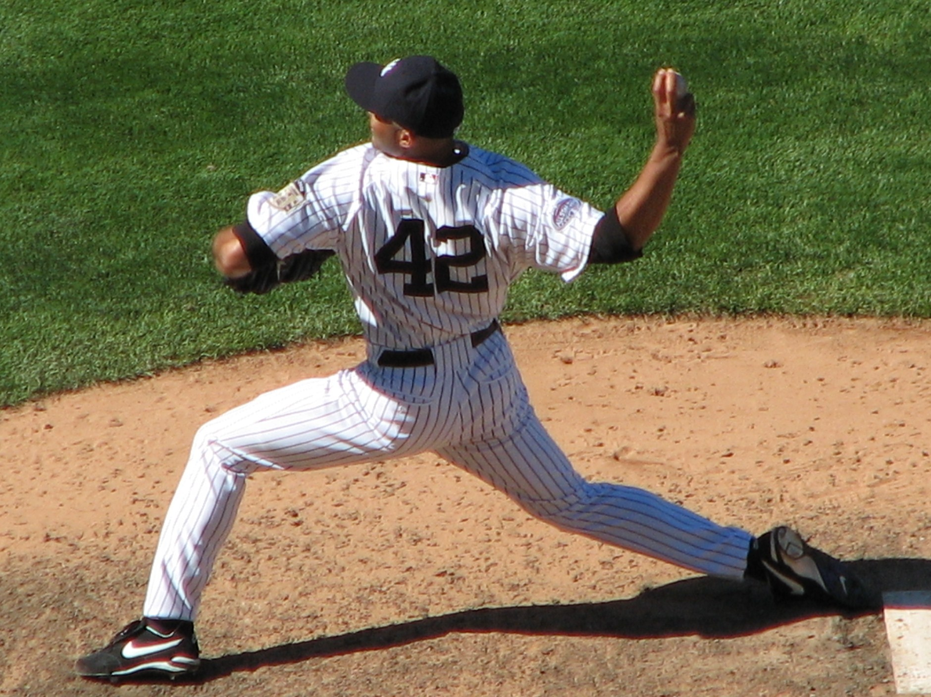 New York Yankees Pitcher Mariano Rivera on May 25th, 2008 vs. Seattle Mariners.